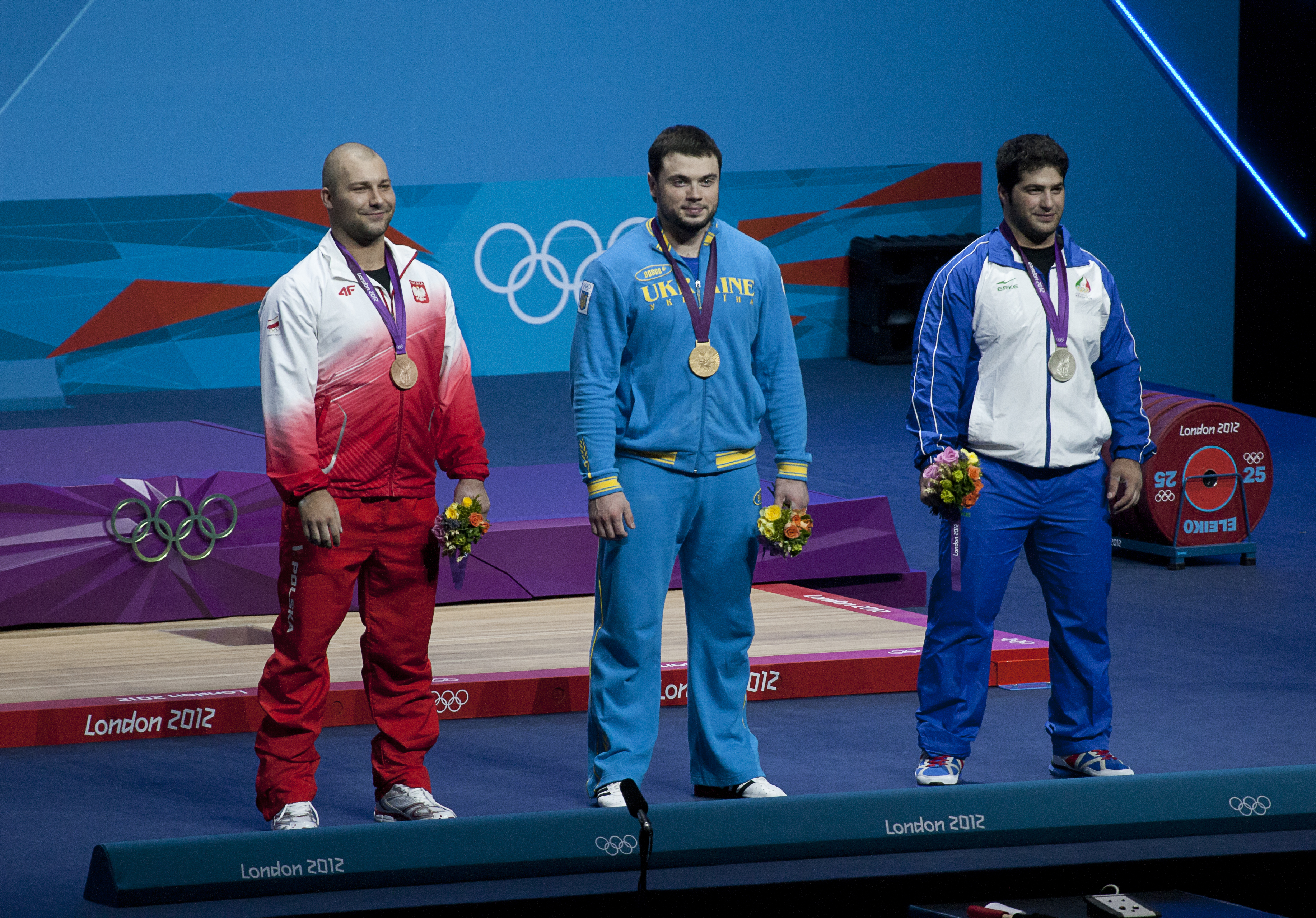 Oleksiy Torokhtiy (UKR) wins gold, Navab Nasirshelal (IRI) silver and Bartlomiej Wojciech Bonk (POL) bronze. Olympic 105Kg Weightlifting, Excel Centre 6th August 2012